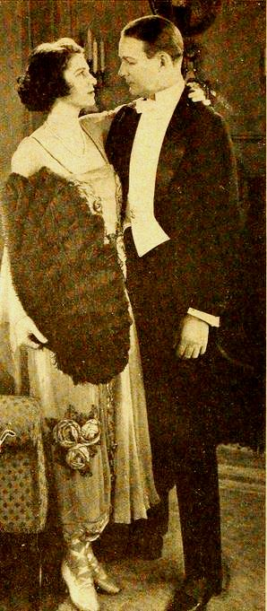 Still for the American film The Invisible Bond (1919) with Irene Castle and Huntley Gordon, on page 74 of The Motion Picture Magazine.